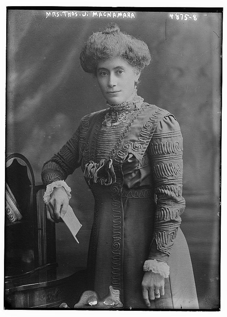 Mrs. Thomas James Macnamara in 1919